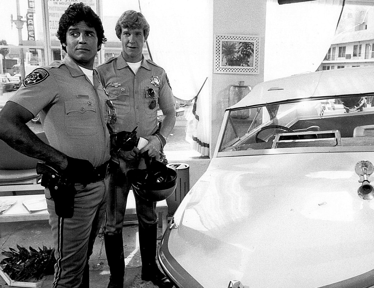 Photo of Erik Estrada as "Ponch" Poncherello and Larry Wilcox as Jon Baker from the television series CHiPS.